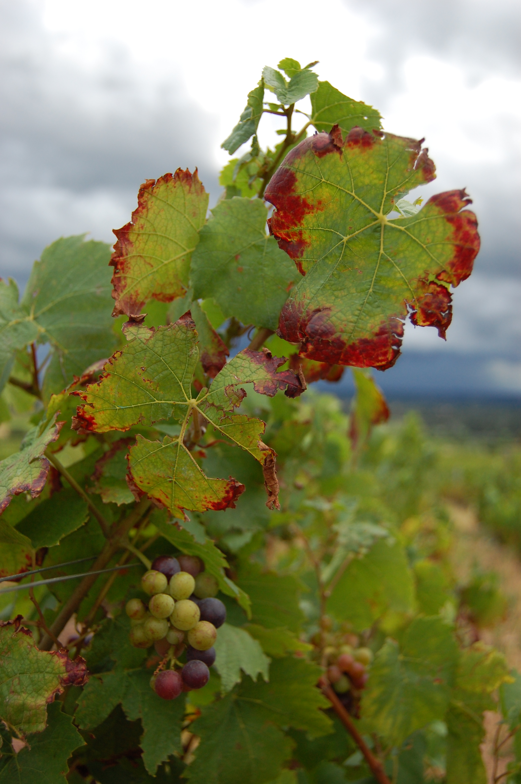 Taken in the french wine region of Beaujolais in early August. Gamay grapes beginning the period of Veraison.